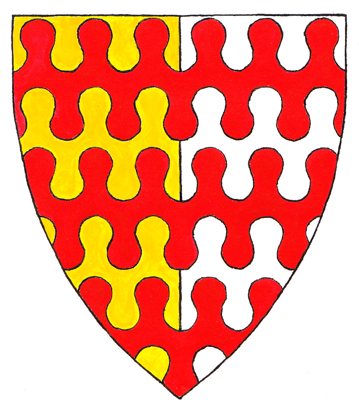 Armorials of the de Dauntsey family of Dauntsey, Wiltshire, England, UK: Per pale or and argent, 3 bars nebulée gules. Source: F. N. MacNamara (1895) Memorials of the Danvers Family (of Dauntsey and Culworth): Their Ancestors and Descendants from the Conquest till the Termination of the Eighteenth Century; with some Account of the Alliances of the Family and of the Places, where they were Seated, London: Hardy & Page, p. 254 OCLC: 5134326. These arms can be seen on various monuments within the parish church of Saint James the Great, Dauntsey. The bars are also shown undée (i.e., wavy) in the stained glass windows and in sculpted stone on the Danvers-Stradling tomb, as mentioned by MacNamara, p. 251.